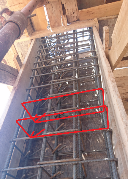 Two of the stirrups are marked with a red line on the column